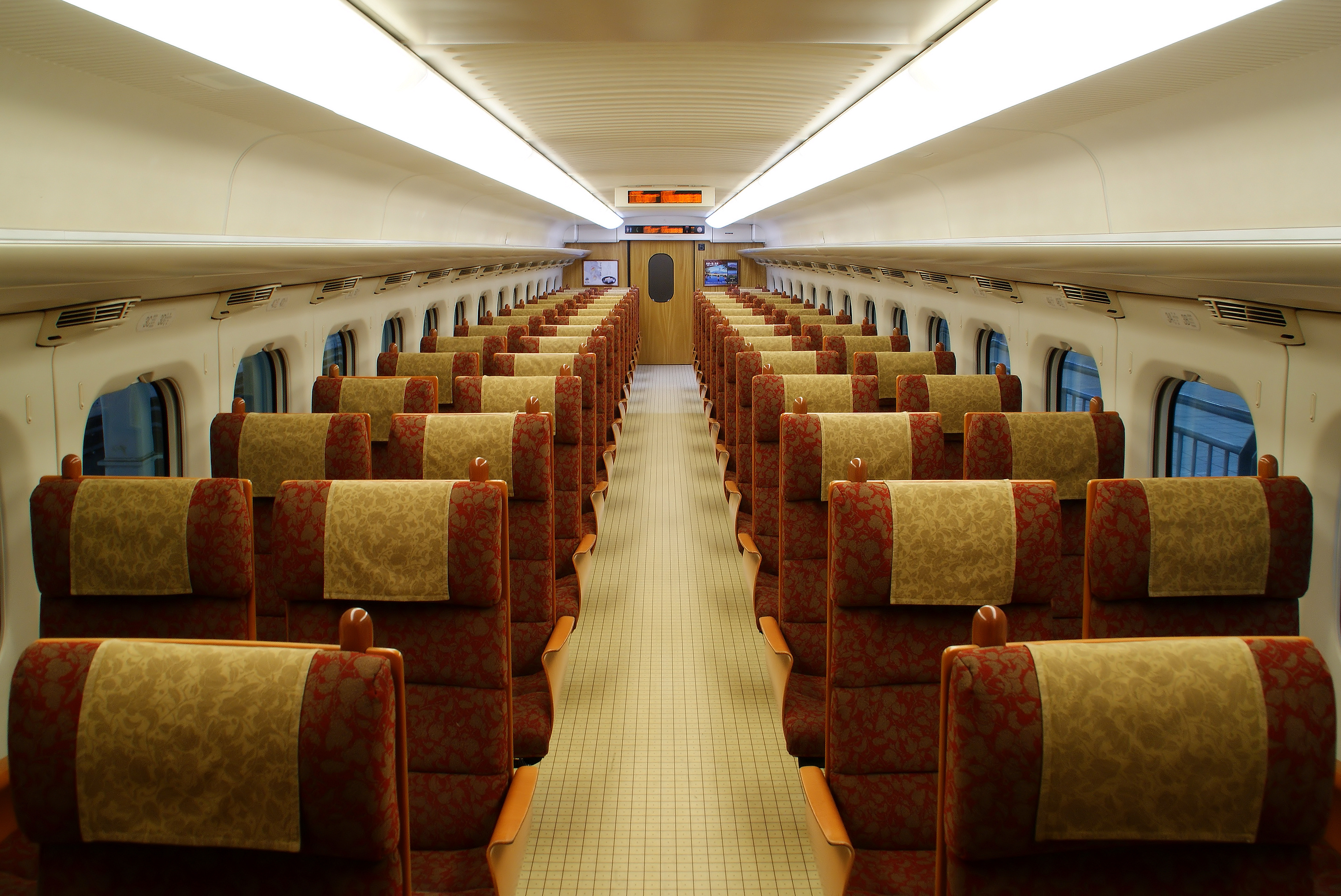 Interior of a JR Kyushu 800 series shinkansen train taken at Hakata Station in Fukuoka, Japan